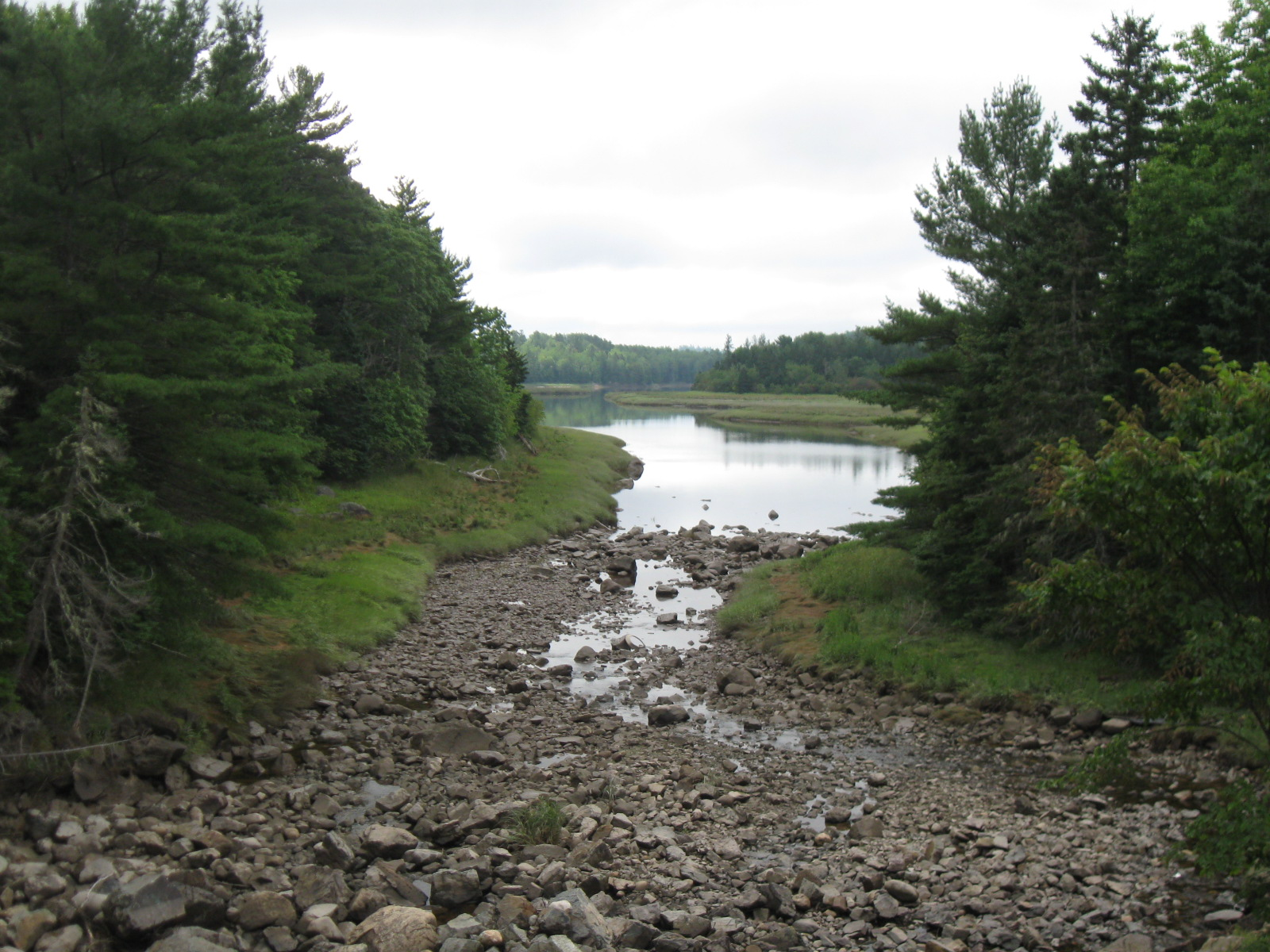 Hardscrabble River at U.S. Route 1 crossing, eastern Maine